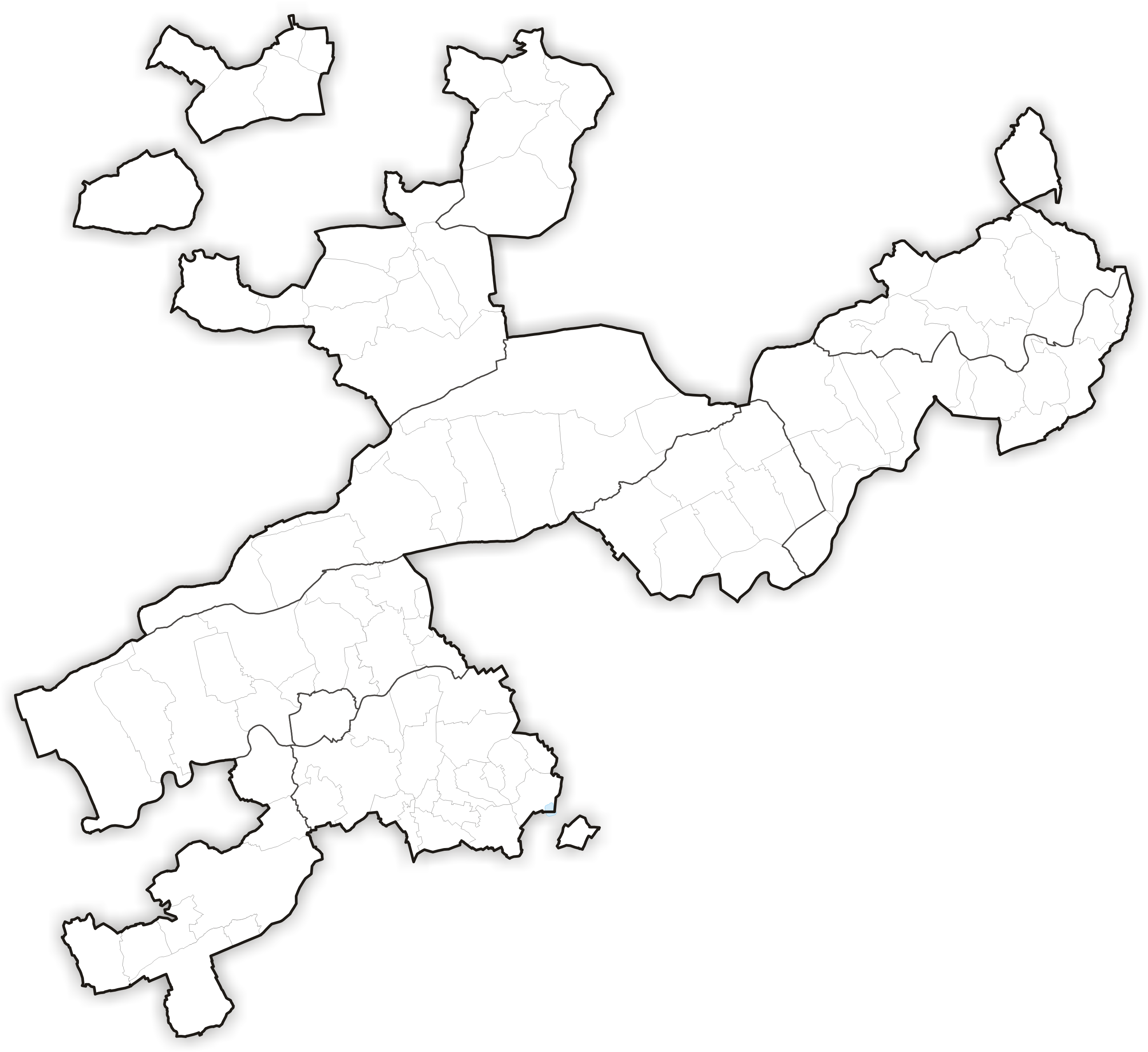 Municipalities in Canton Solothurn